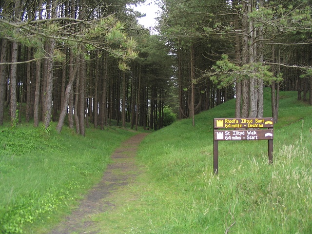 Start of Saint Illtyd's Walk. Whenever I pull up the 50 or 25K maps from anywhere east of Llanelli and south of Brecon, half the time I see a public right of way with extra red diamonds drawn on it. They mark Saint Illtyd's Walk. I know nothing at all about him, but can only guess that he didn't own a compass, since the path meanders considerably. The starting point is here on the coast in Pembrey Country Park.